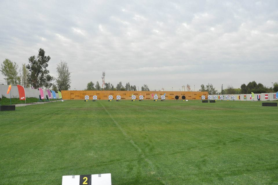 Chilean National Archery Center at the X South American Games